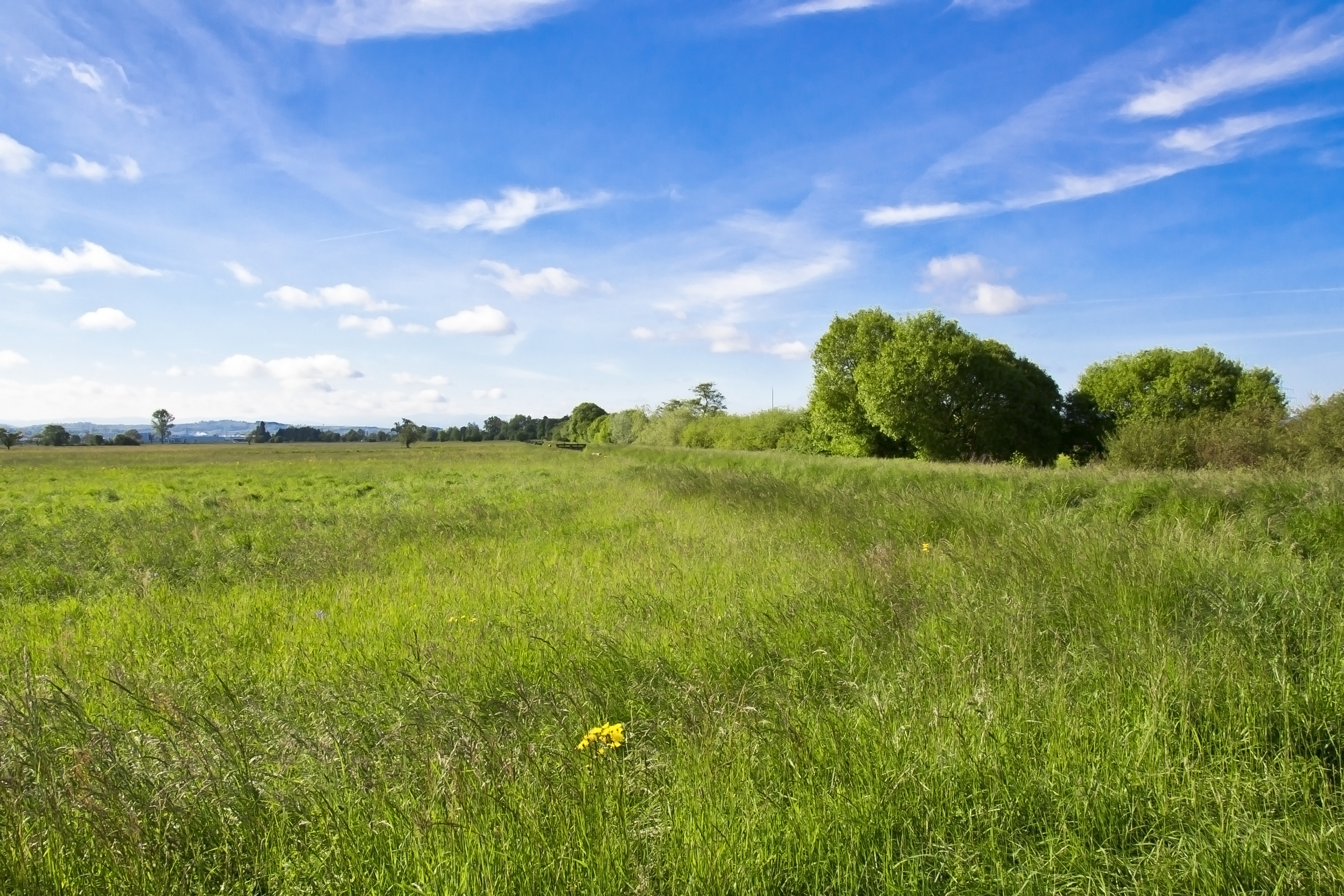 meadow, sky, clouds, trees, plants, flowers